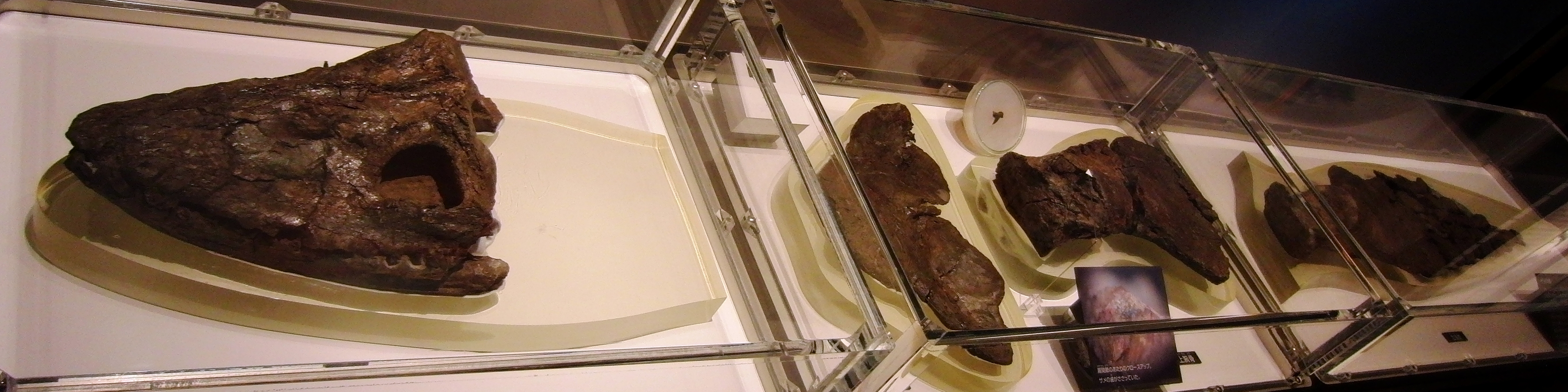 Fossil of Futabasaurus suzukii. Exhibit in the National Museum of Nature and Science, Tokyo, Japan.